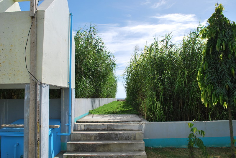 The space between the vertical and the subsurface flow bed. In between there is effluent sample point. The plants used in the filter are locally available reed called ‘tambok’ (Phragmites karka). It was grown during the construction phase in a nursery at the relocation site. The tambok was cut for the first time in 2008 and it was decided that it should henceforth be cut annually. The reeds also act as an odour barrier during the filling process of cell 1. Photo by Jouke Boorsma, Nov 2009.